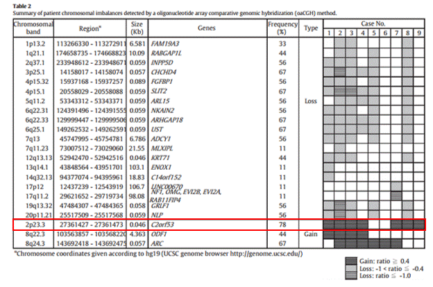 Graph showing C2orf53